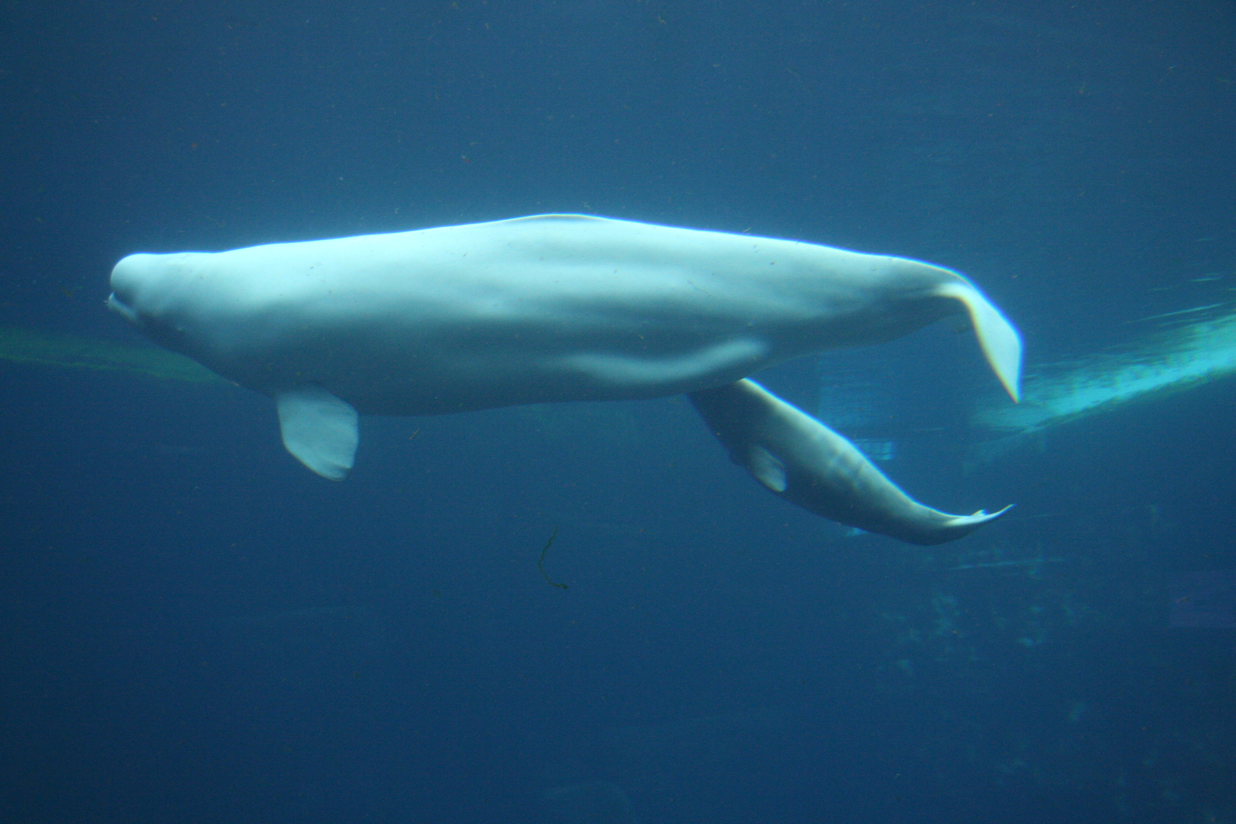 Beluga (Delphinapterus leucas) Vancouver Aquarium